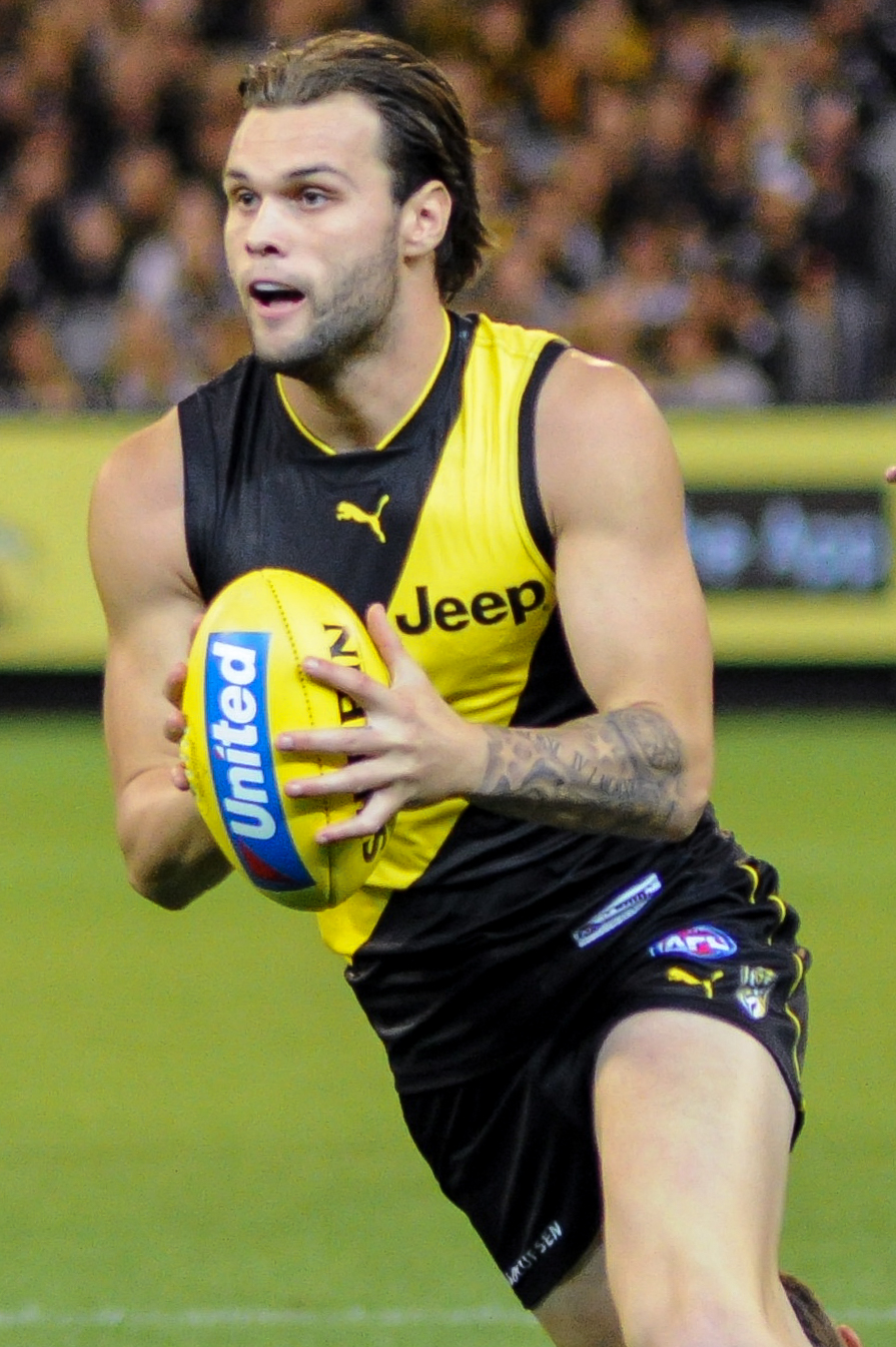 Ben Lennon during the AFL round two match between Richmond and Collingwood on 30 March 2017 at the Melbourne Cricket Ground in Melbourne, Victoria.